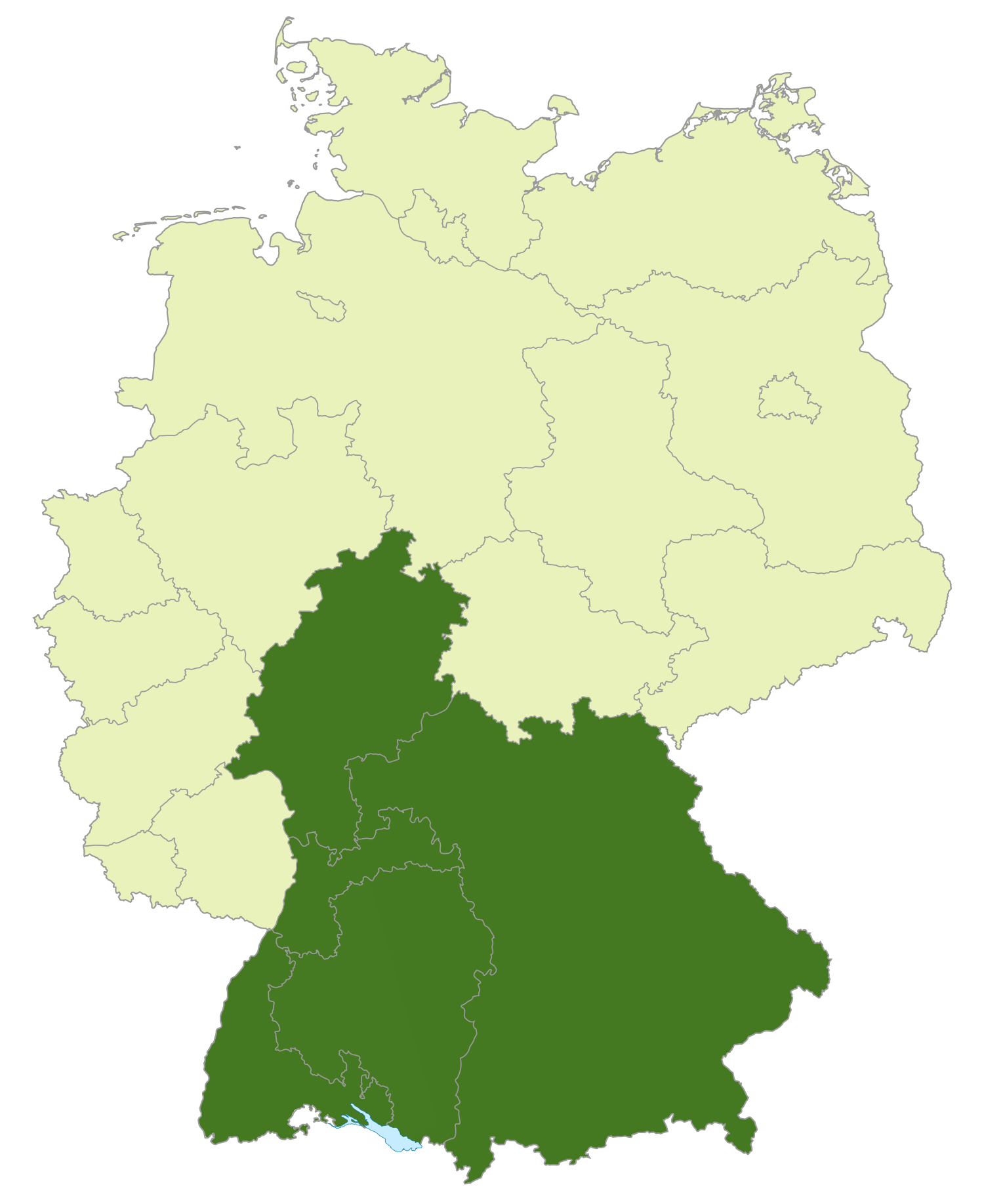 Map of regional soccer association of Süddeutschland, Germany